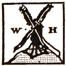 Former logo of the publishing company William Heinemann.